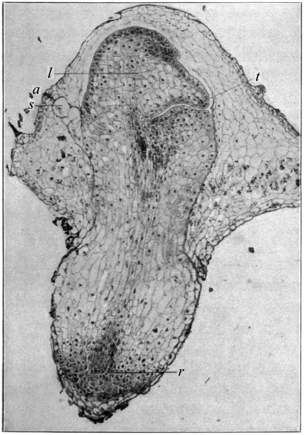 Illustration for "A New Genus of Ophioglossaceae" by Harold L. Lyon., Unversity of Minnesota, in Botanical Gazette Volume 40, page 456 (Dec. 1905). The caption reads:Fig. 1. - Photomicrograph of a section through a gametophyte and young sporophyte of Sceptridium obliquum. The section is vertical, and transverse of the gametophyte. The root is already protruded from the under side of the gametophyte, while the position of the first leaf was marked by a pronounced elevation on the upper side. a, archegonium; s, suspensor; t, stem tip; l, first leaf; r, root. X 60.